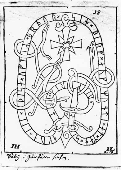 Säby U90, south of the manor-house in Säby in Järfälla, Stockholm County, is a rune carving in solid flat rock. The runic inscription is located in the forest about 75 m southeast of the main building of Säby in Järfälla. Drawing of the stone made in 1682 by Johan Hadorph and Johan Leitz. Photograph from Peringskiöld's "Monumenta".